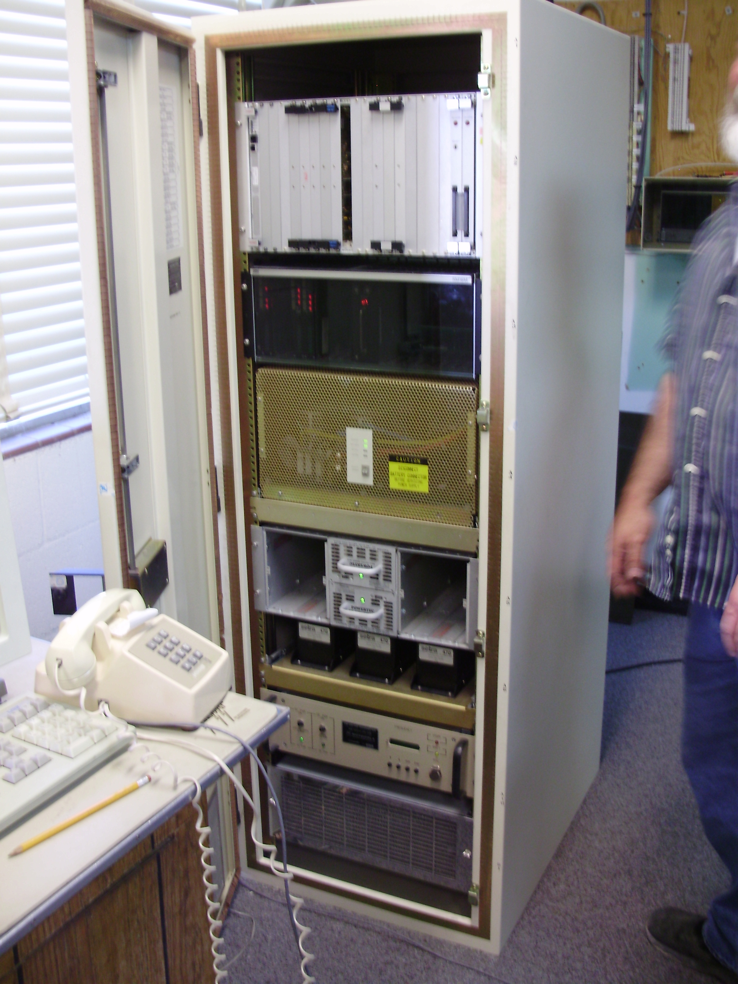 Ely Airport ASOS ACU